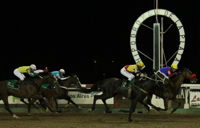 PSC Solo un momento